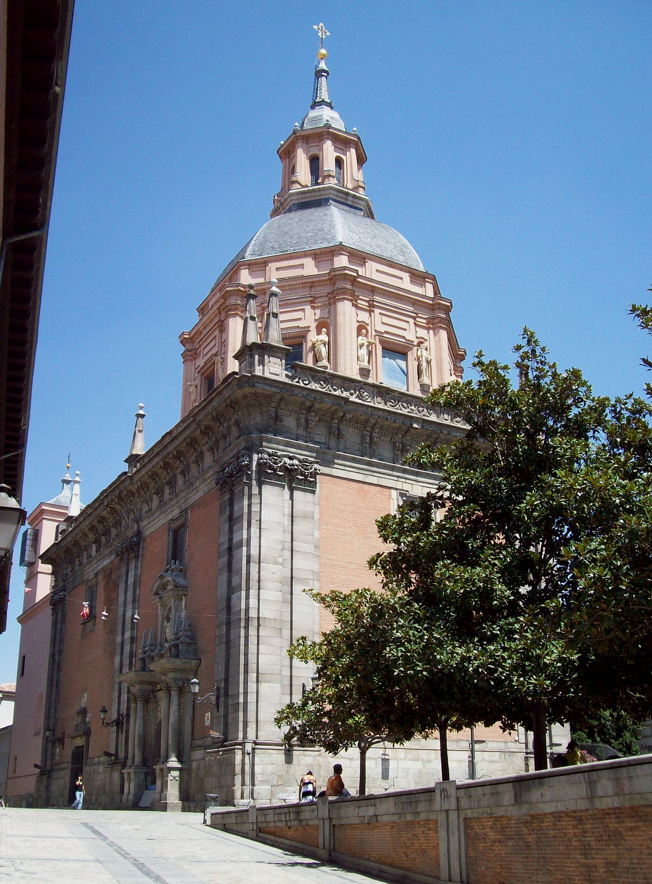 View of Saint Isidore's Chapel at St. Andrew’s Church in Madrid (Spain). Chapel was projected by Pedro de la Torre and José de Villarreal and built between 1642 and 1669. It was restored three times between 1942 and 1991.